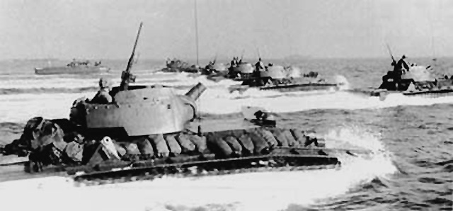 Armored amtracs of Company A, 1st Armored Amphibious Battalion, carry the assault wave of the 4th Marines, 6th Marine Division, onto RED Beach. The LVTs mount 75mm howitzers and .50-caliber machine guns, and were used effectively later in the campaign when the Thirty-second Army attempted amphibious landings on Tenth Army flanks in April.